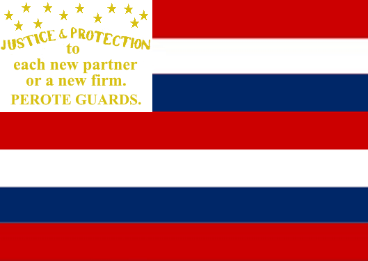 The first battle standard of the Perote Guards (Company D, 1st Alabama Infantry Regiment), used until the Summer of 1861.